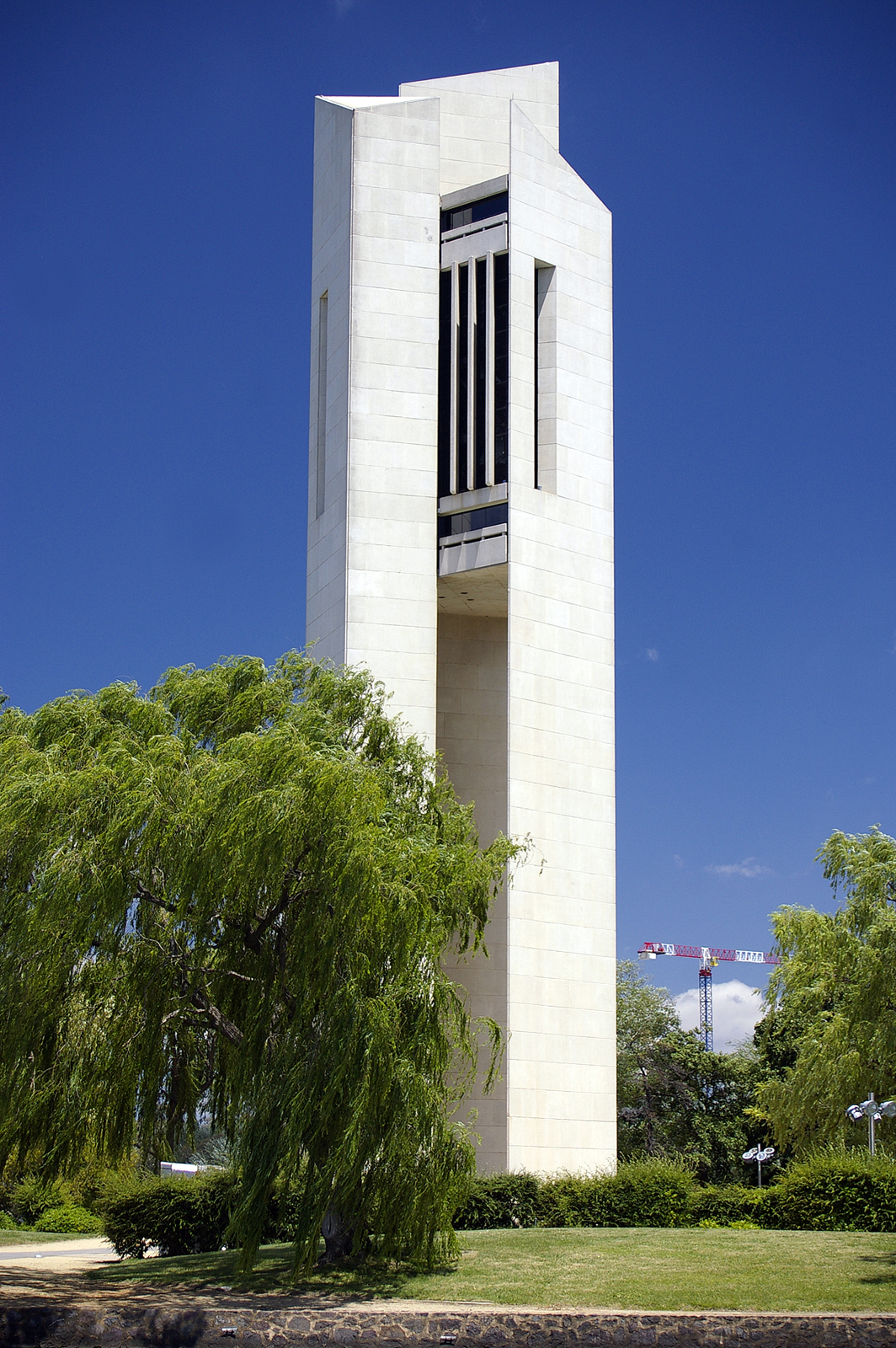 National Carillon located on Aspen Island on Lake Burley Griffin in Canberra, Australian Capital Territory.